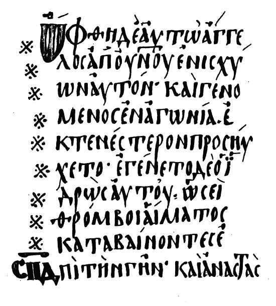 facsimile of the codex with text of Luke 22:43-44